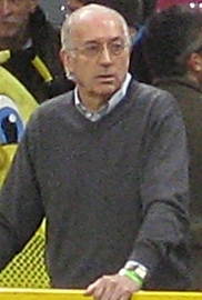 Germany, Bonn, Telekom-Dome: Bernhard "Bernd" Cullmann and his son Carsten (both former Bundesliga soccer players) during a tournament of traditional teams.